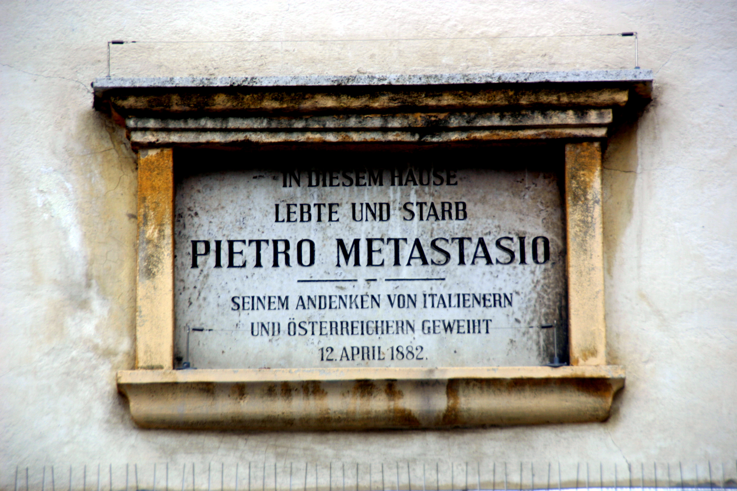 Plaque in Vienna